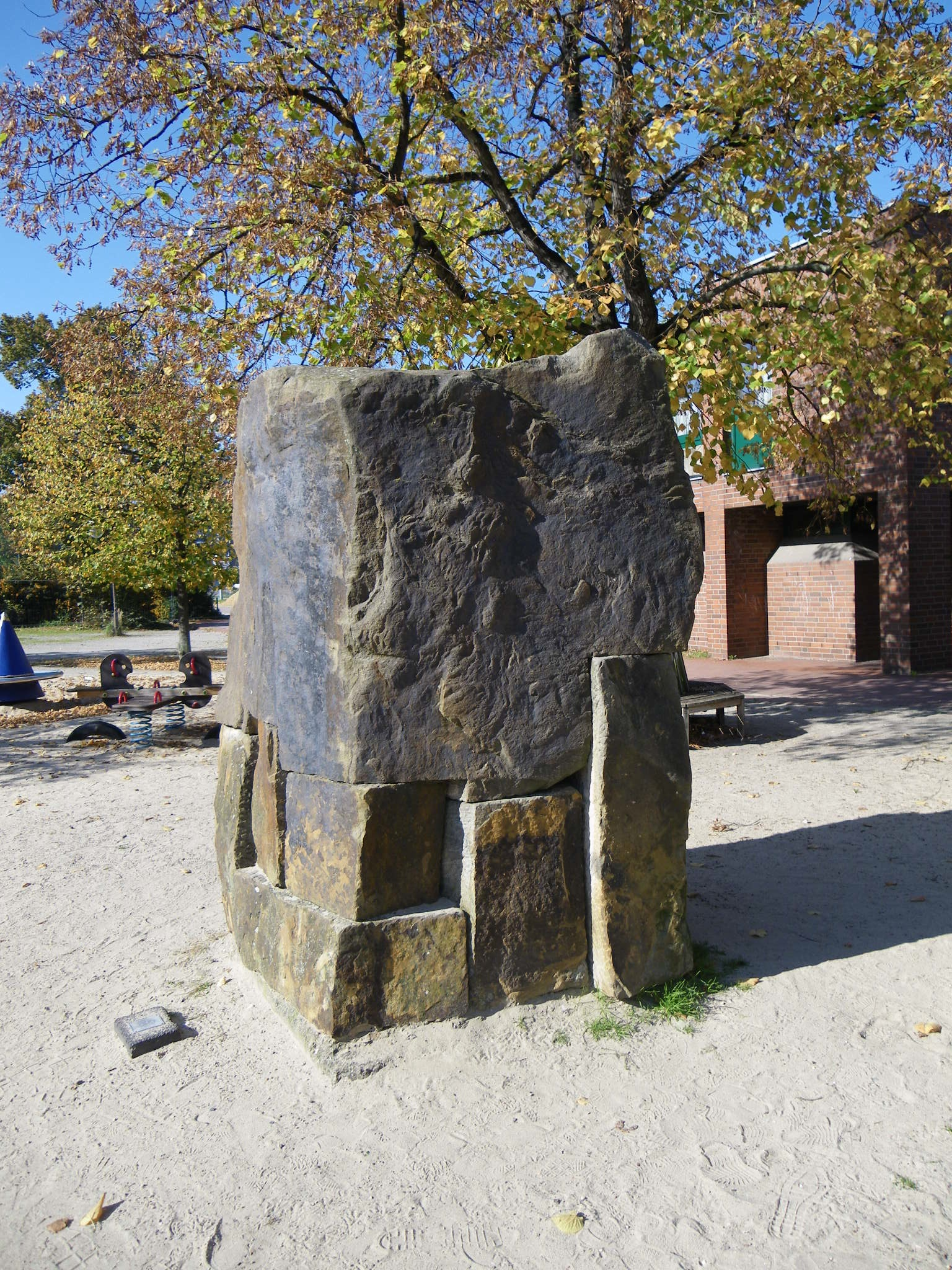 Public Art in Langenhagen: Reinhard Buxel, Quader 1987